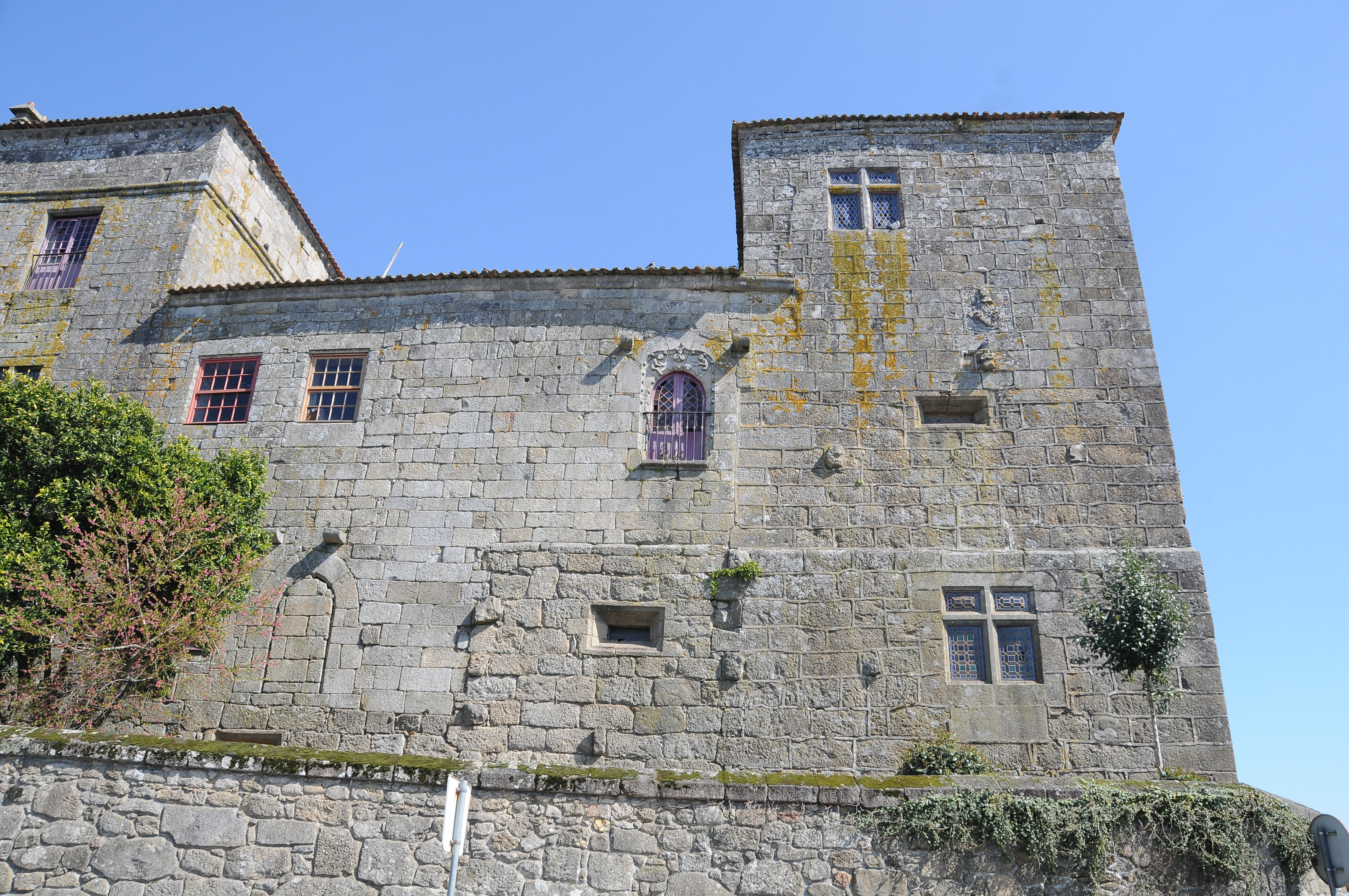 Solar dos Pinheiros, Barcelos, Portugal.